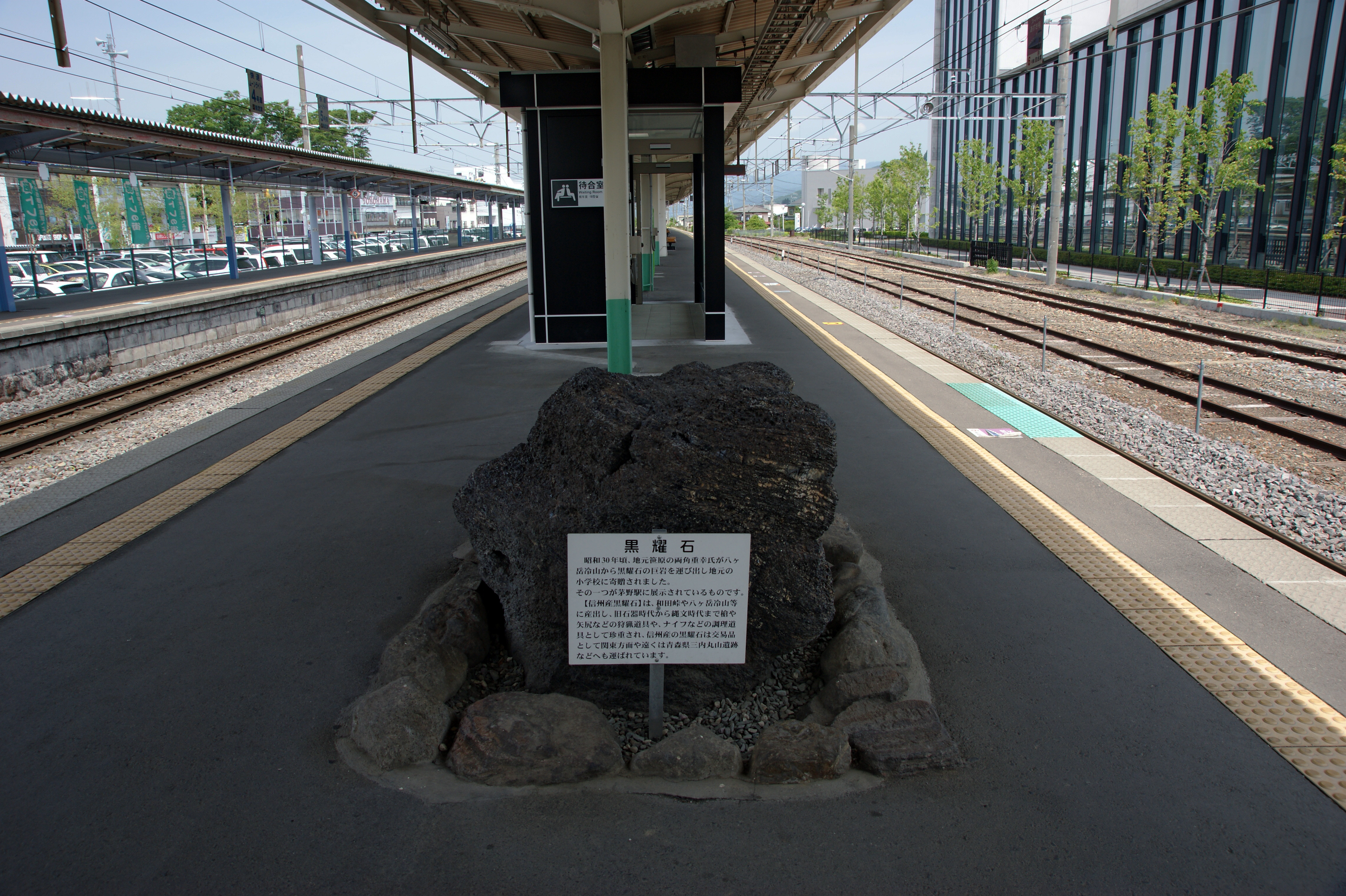 Chino Station, Chino, Nagano prefecture, Japan